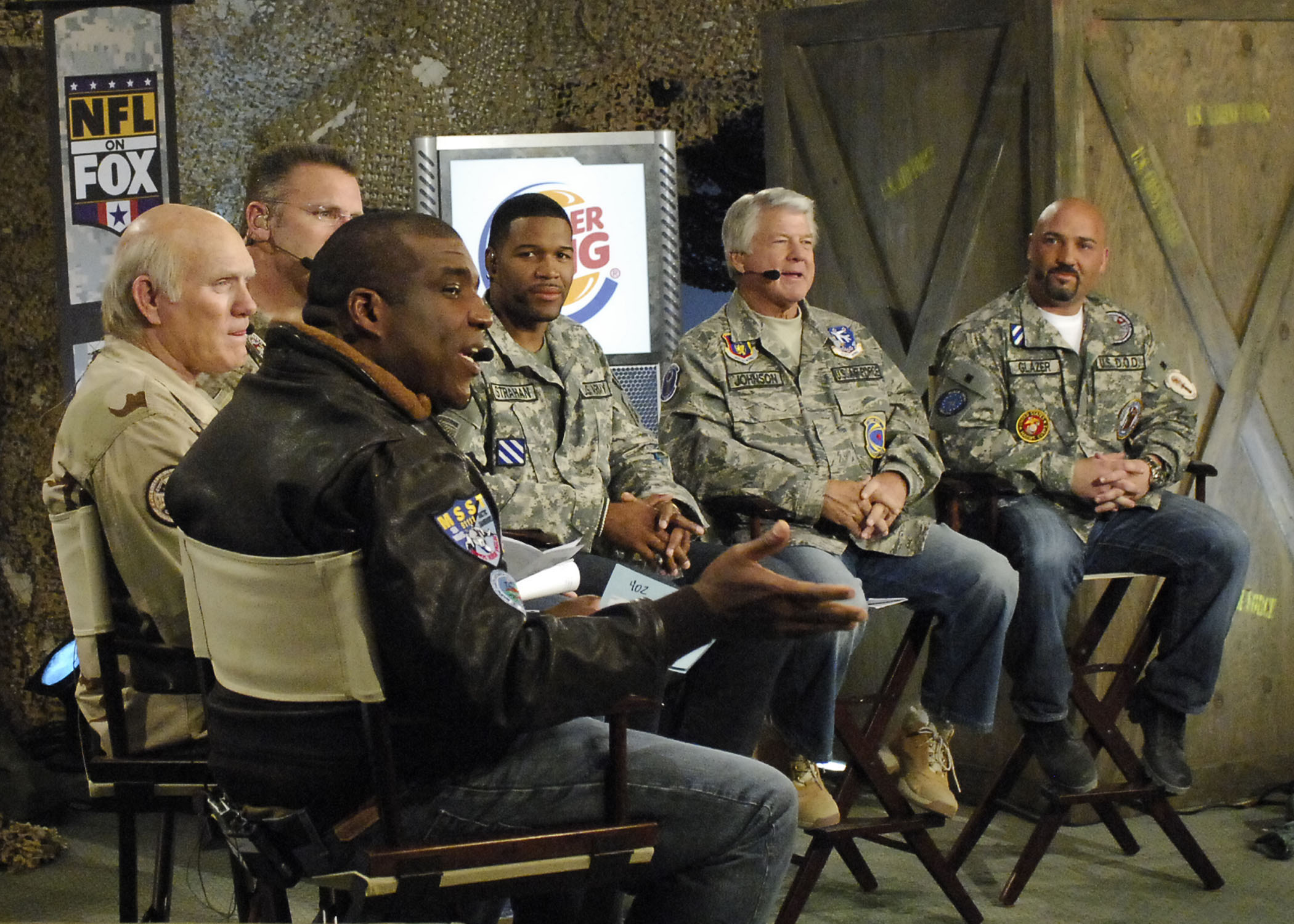 From left to right: Curt Menefee, Terry Bradshaw, Howie Long, Michael Strahan, Jimmy Johnson, and Jay Glazer listen to questions during the pregame Nov. 7, 2009. The "Fox NFL Sunday" team came to visit Bagram to boost morale. They are scheduled to broadcast live Nov. 8, 2009 from here.